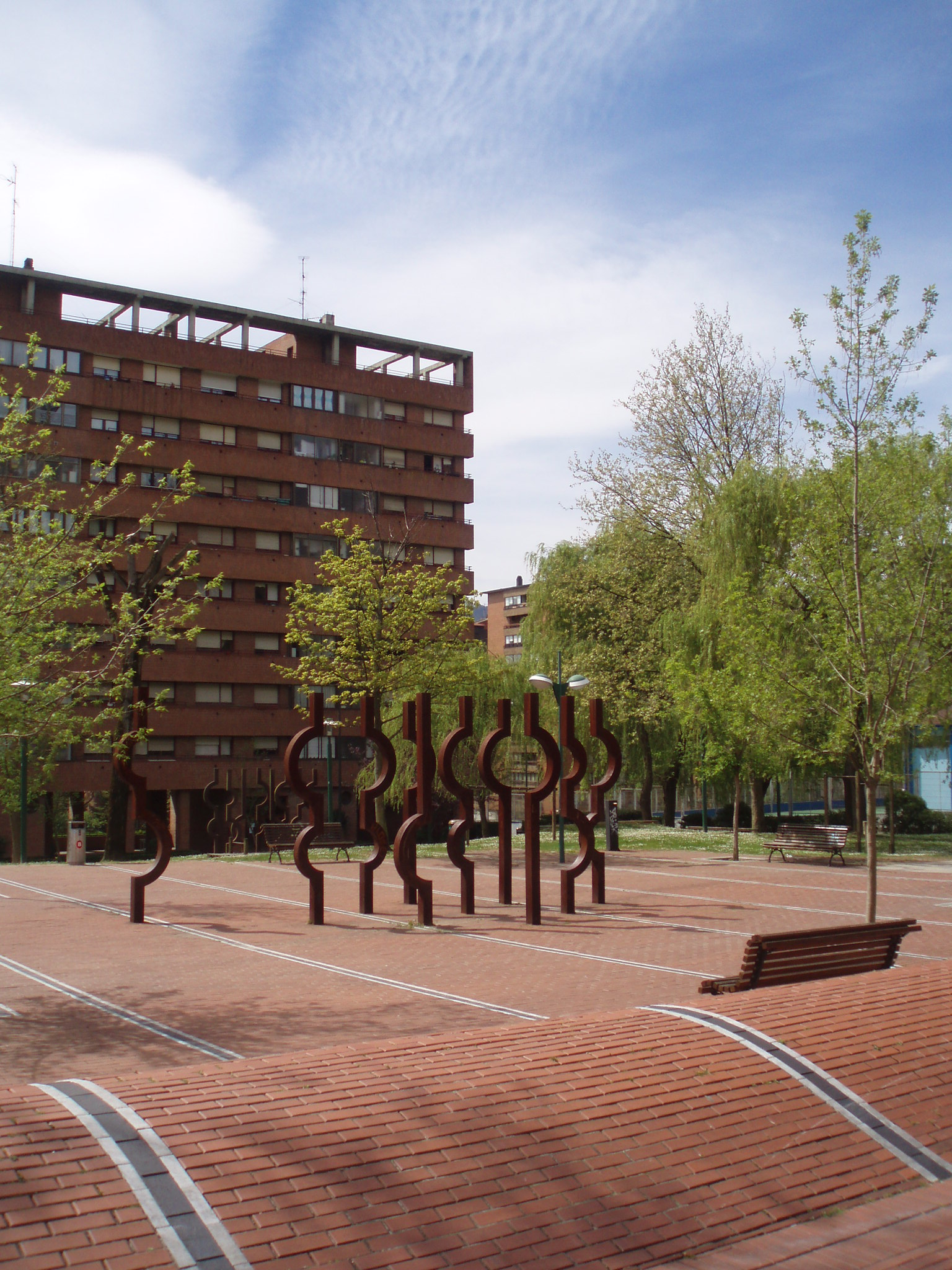 Mrs. Leah Manning gardens in Bilbao.